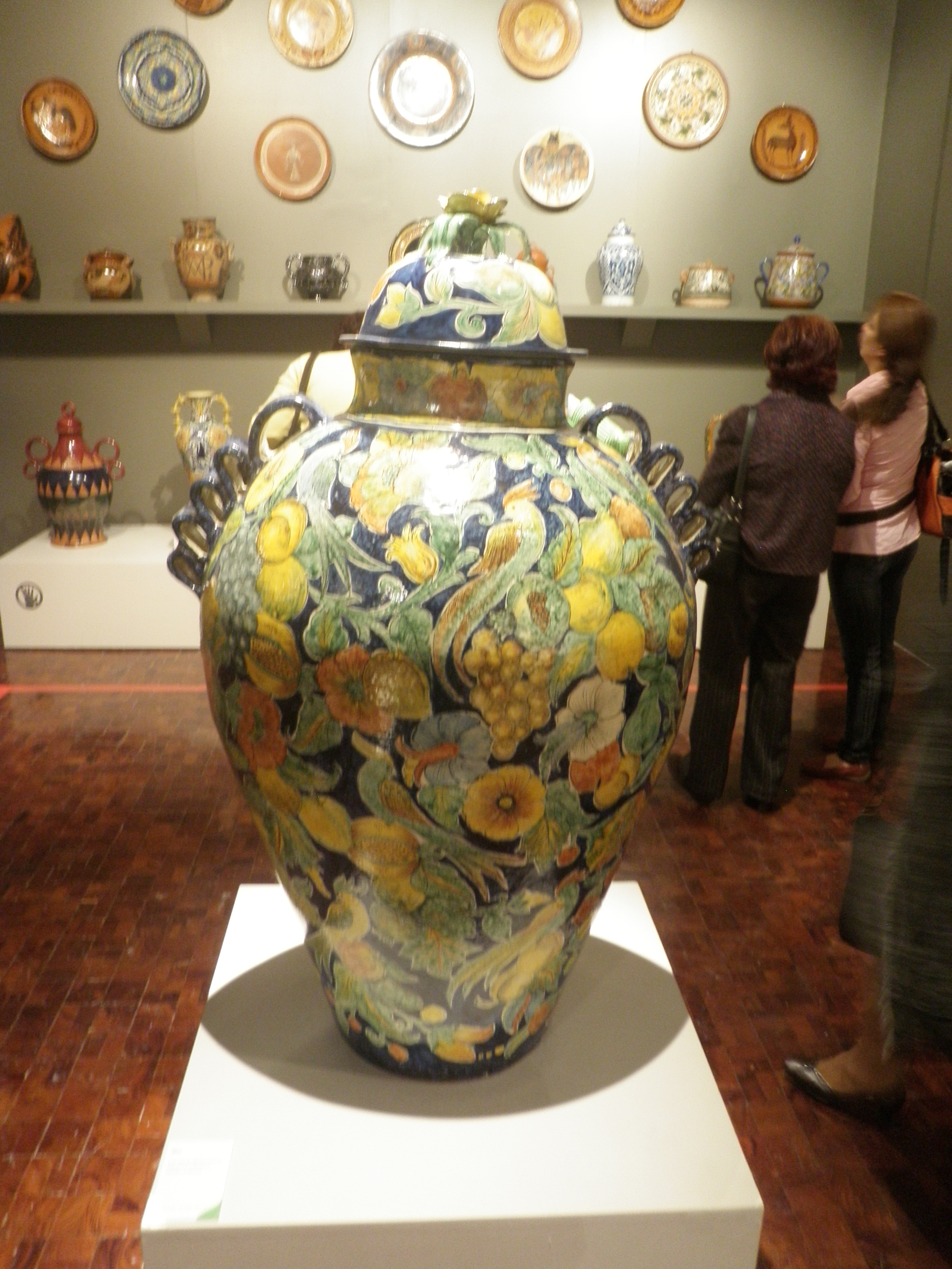 Jar from Slamanca, Guanajuato, created with maiolica and talavera. Shown in the collection of the Museo de Arte Popular in Mexico City.